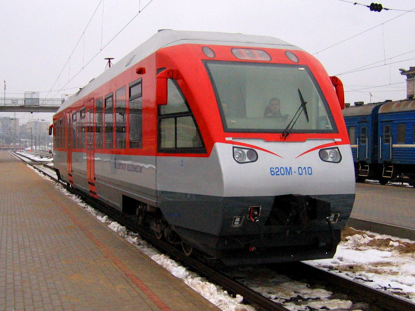 Railcar PESA 620M in Vilnius train station 2009.